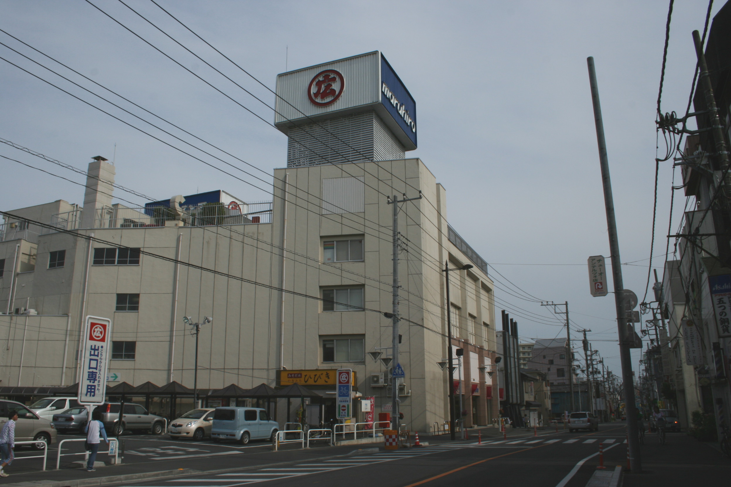 Maruhiro Department Store, Higashimatsuyama branch, Higashimatsuyama-city, Saitama, Japan.